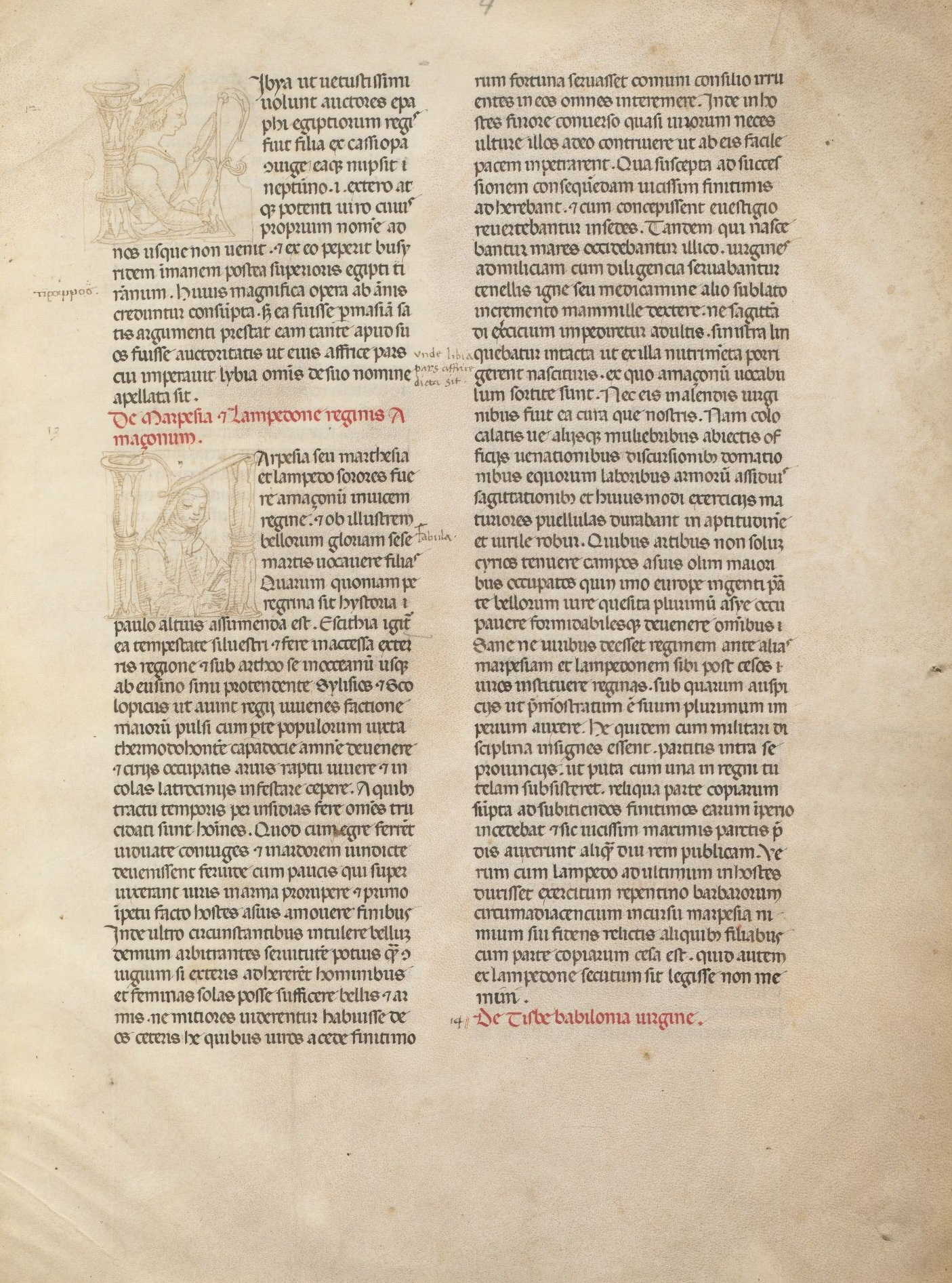 Incomplete illuminated manuscript version of De mulieribus claris, [ca. 1425], originally by Giovanni Boccaccio (1313-1375). From the source: "this manuscript was intended to have illuminated initials, but for some reason they were never completed, which gives us an unusual opportunity to see an earlier stage in the process, preparatory sketches which would have eventually been covered over." Full digitized manuscript at source: MS Richardson 41, Houghton Library, Harvard University